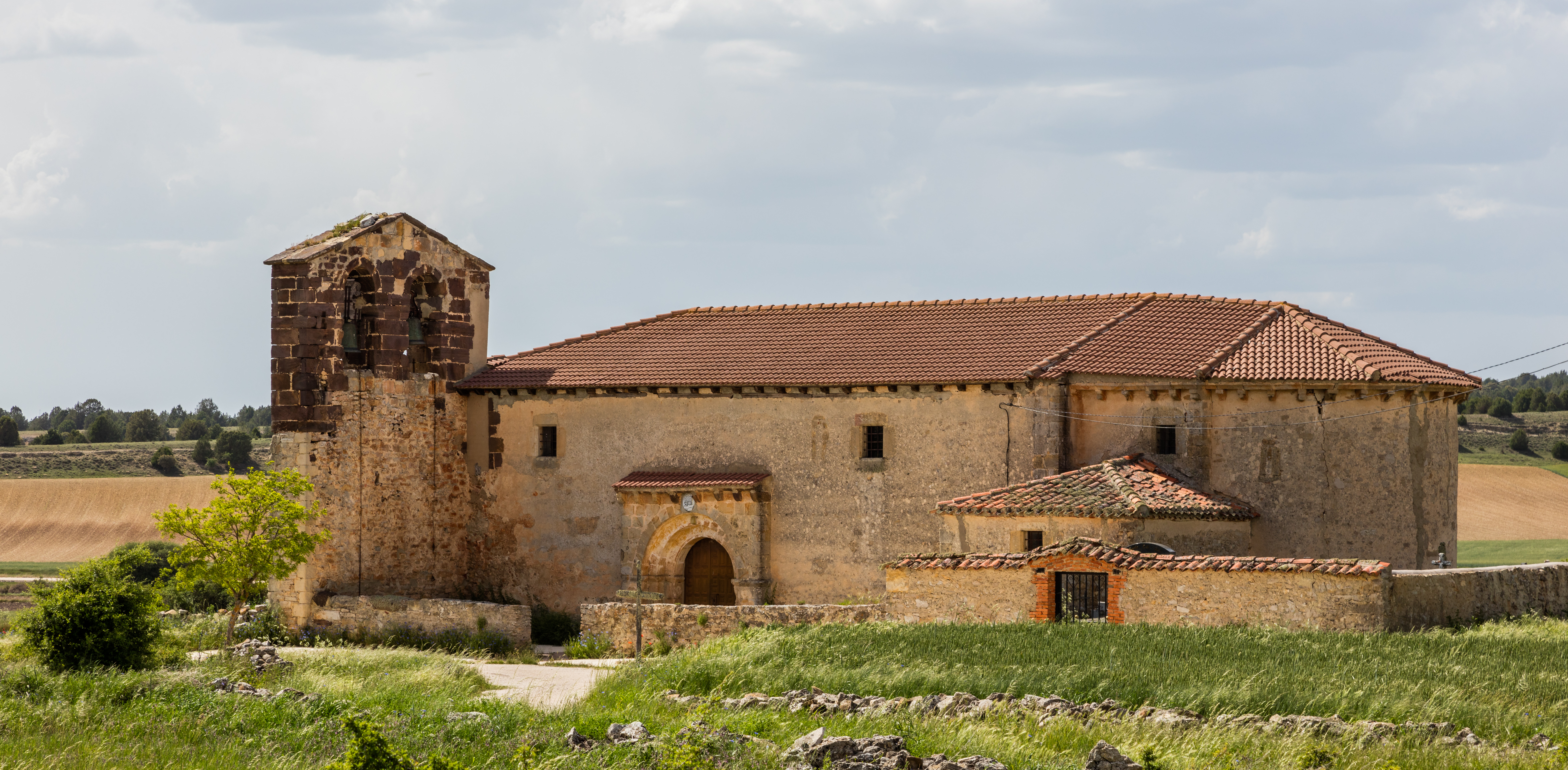 Church of St Blas, Villaciervitos, Soria, Spain